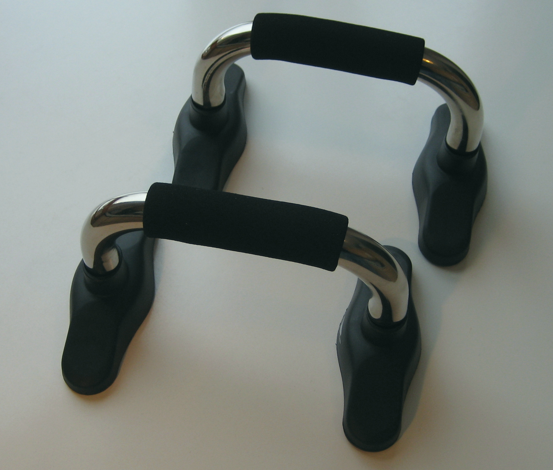 Push Up Bars